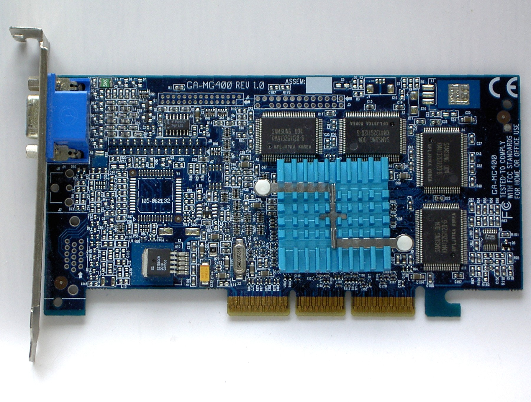 Gigabyte GA-MG400 32MB (Matrox G400)